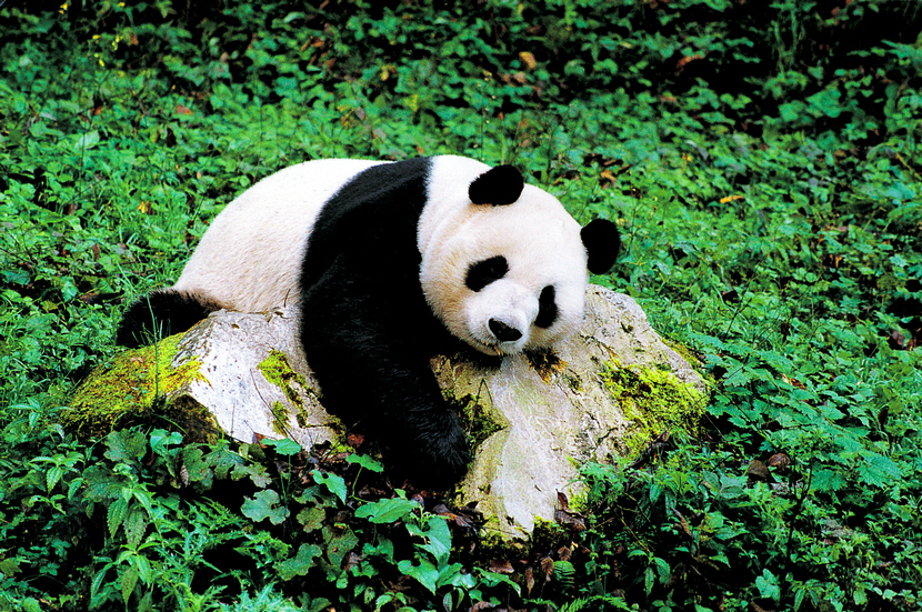 The Sichuan Giant Panda Sanctuaries located in southwest Sichuan province of China, is the home to more than 30% of the world's highly endangered giant pandas and is among the most important sites for the captive breeding of these pandas.